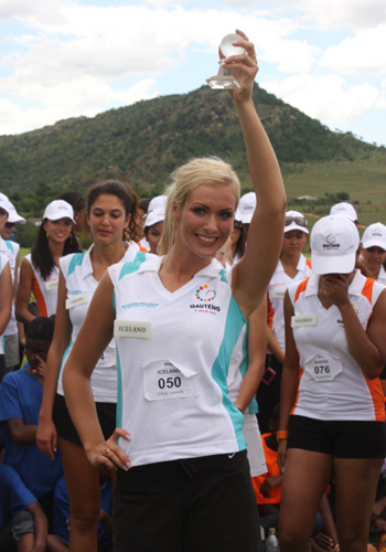 Miss Iceland 2008 Alexandra Ivarsdottir with the sports prize in Miss World 2008